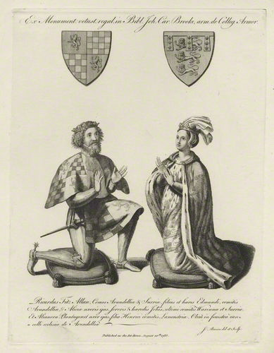 Richard FitzAlan, 10th Earl of Arundel (1306–1376) & Eleanor (1311-1372), his countess